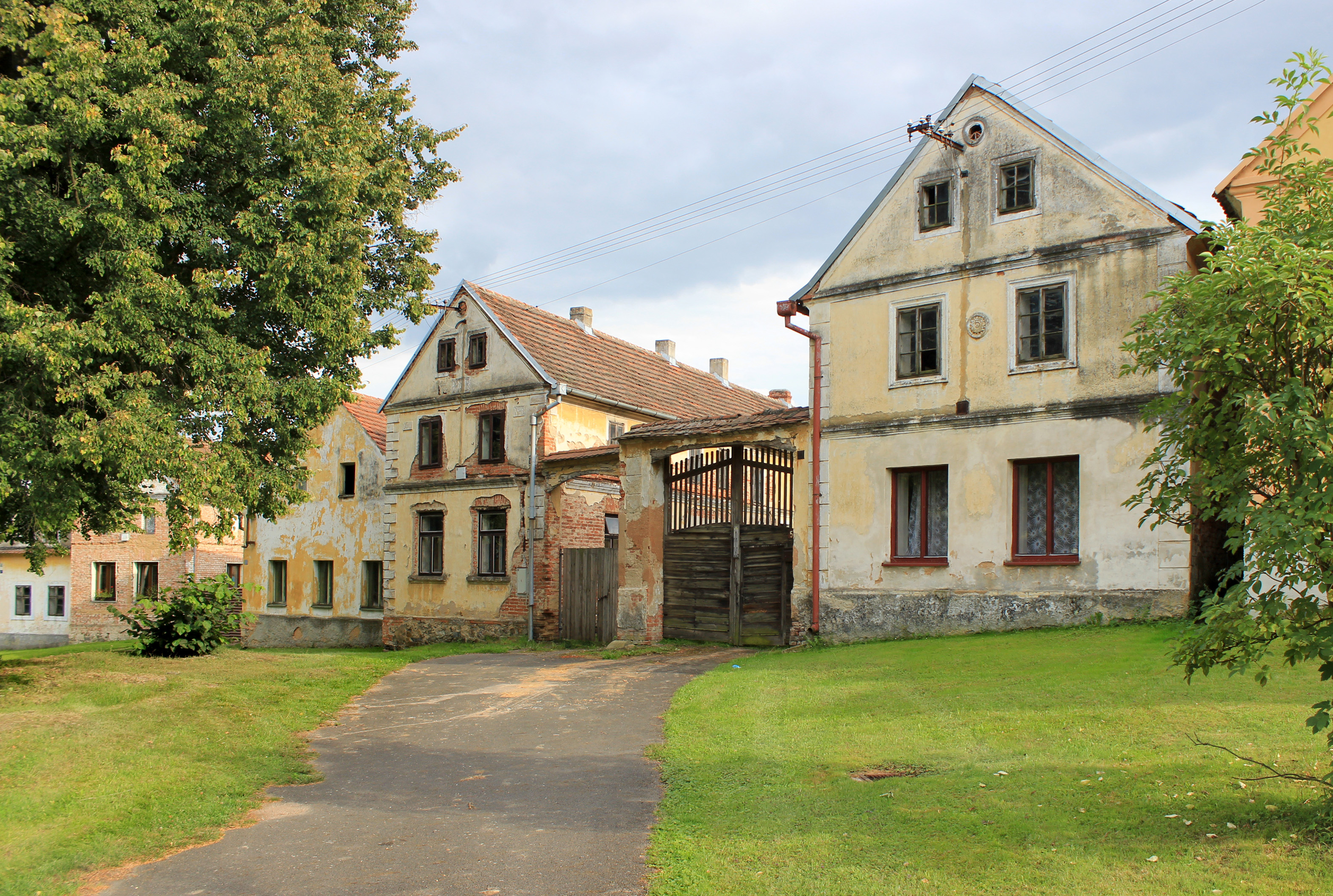 Common in Lochousice, Czech Republic.